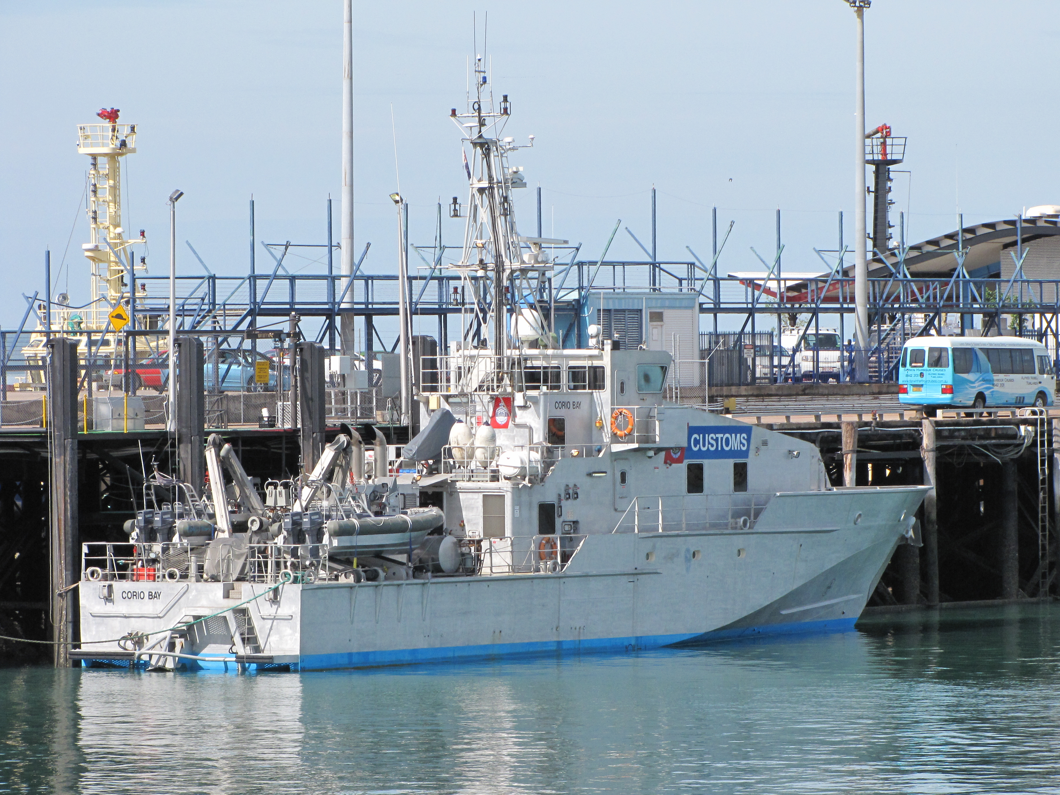 Bay Class patrol boat ACV Corio Bay moored at Darwin's Stokes Hill Wharf. The Australian Customs Bay Class patrol boats wll be phased out over the next six years and replaced by the Cape Class vessels.